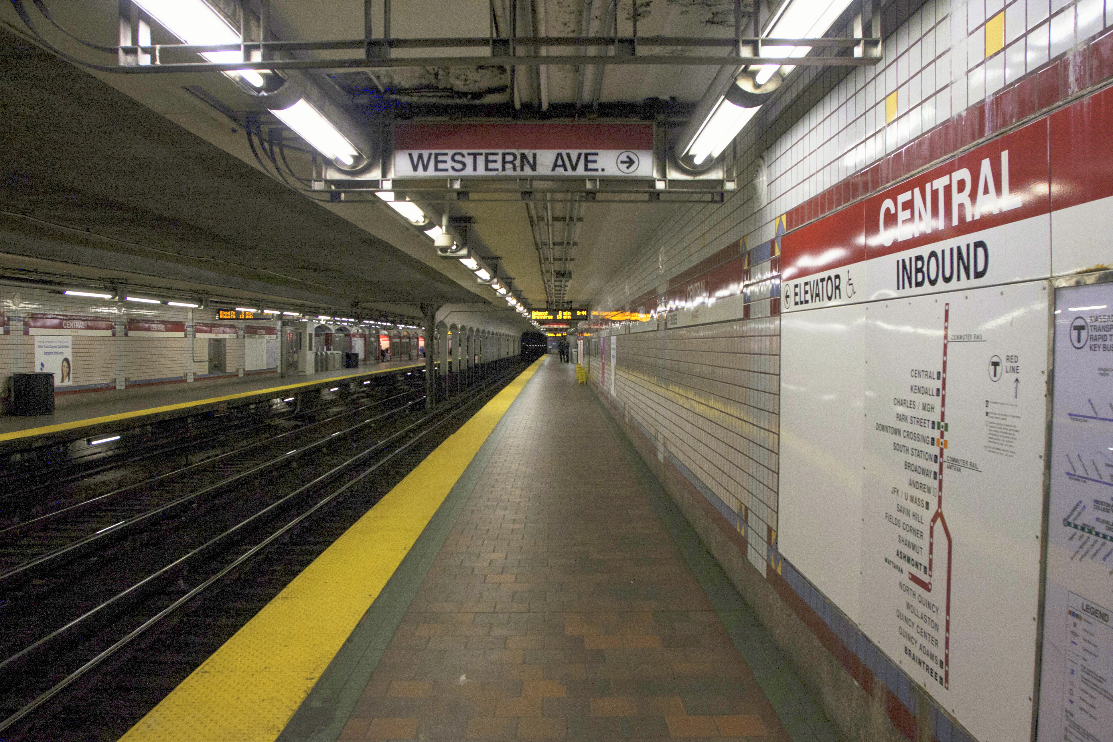 Inbound platform at Central Square station